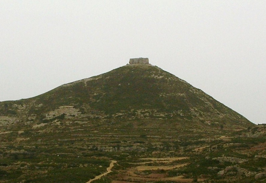 One of the mountains of the Moles the Xert